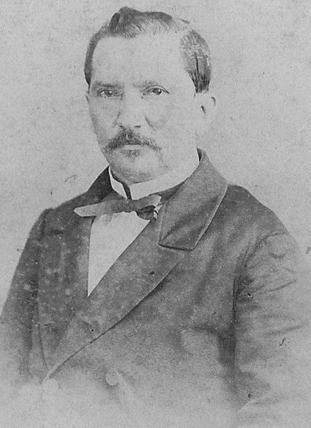 Francisco Xavier de Oliveira [Barão de Campo Verde]. (Col. Francisco Rodrigues; FR-4012), Alberto Henschel, Fundação Joaquim Nabuco, cropped and grayscaled.